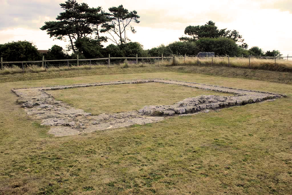 Jordan Hill Roman Temple ruins, Dorset, England